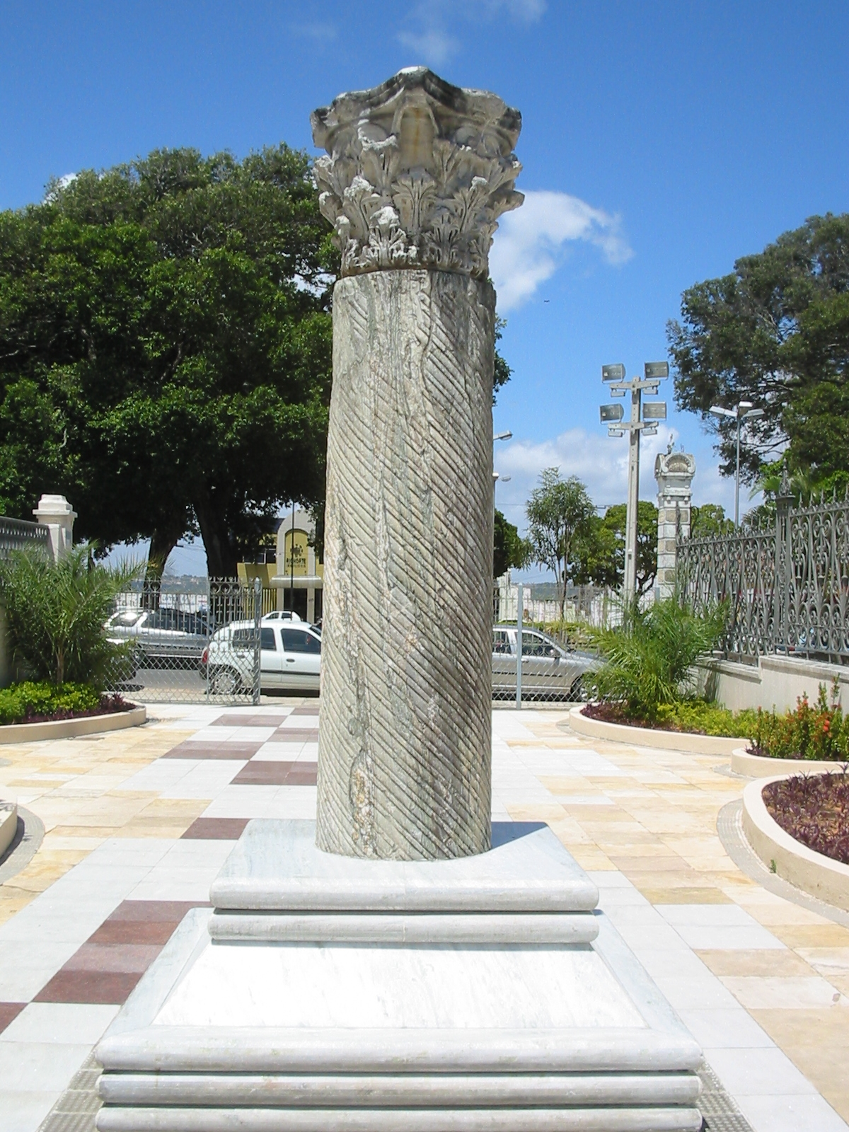 Natal (Rio Grande do Norte), Brazil. Capitolina Column.